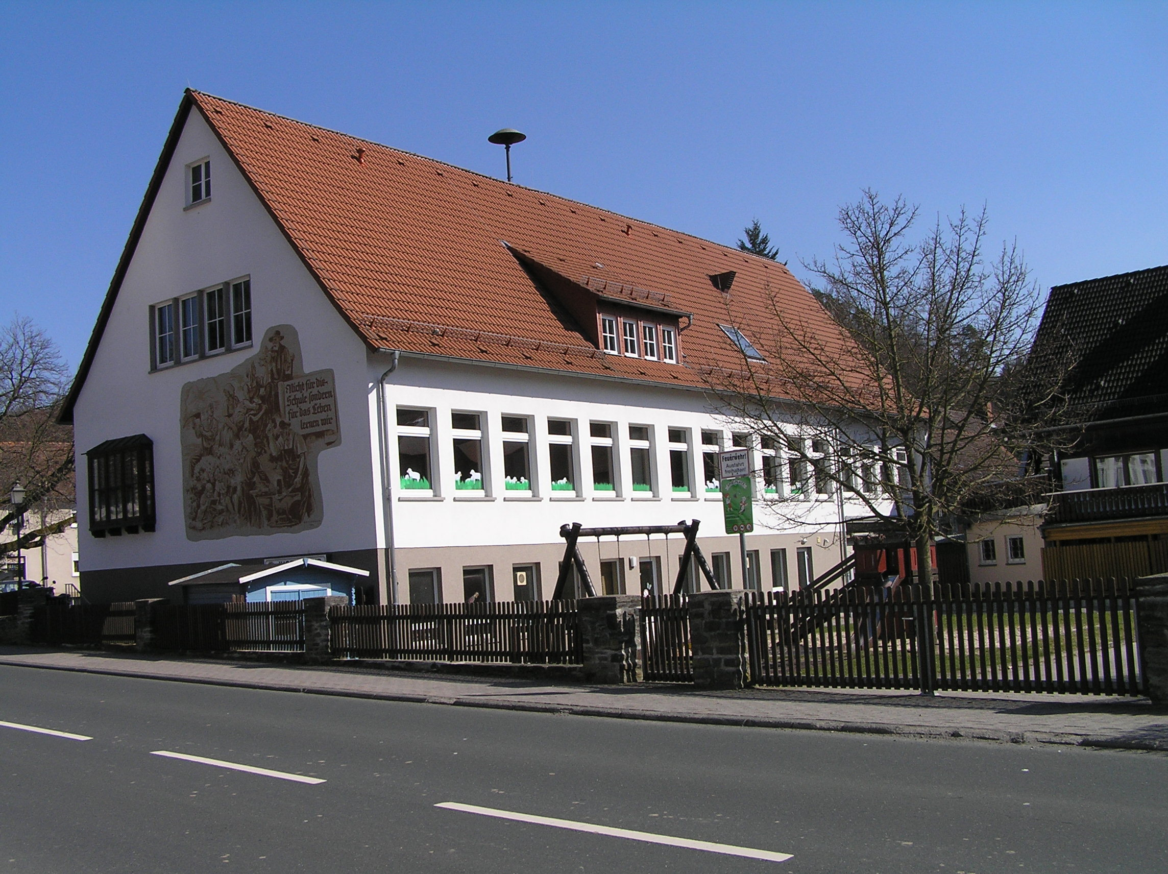 School Niederems, Waldems, Germany